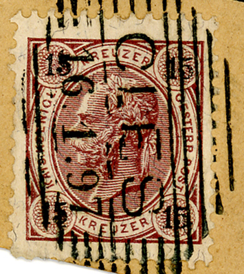 Austrian KK 15 kreuzer stamp, cancelled at CLES South Tyrol, Italy, in 1897.